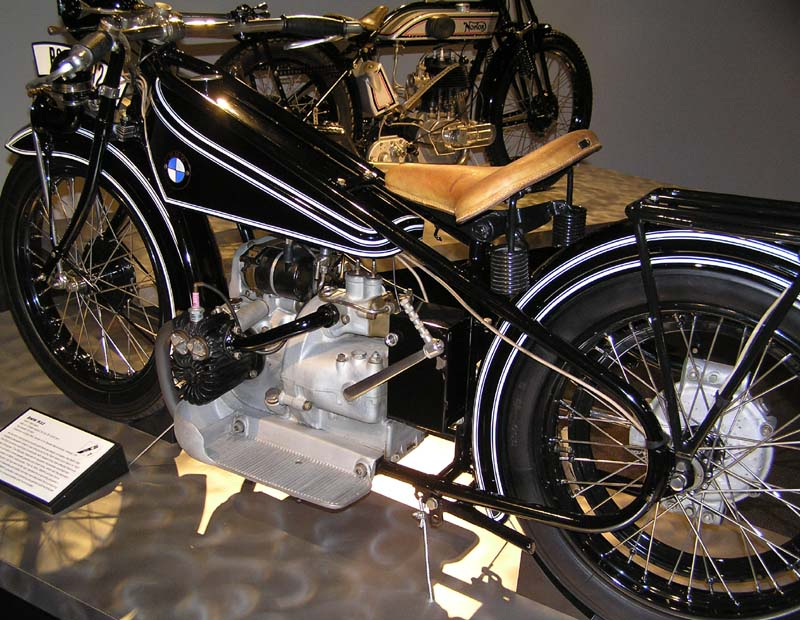 1923 BMW R32 - The Art of the Motorcycle - Memphis. 494 cc, bore x stroke: 68 x 68 mm. Power: 8.5 hp @ 3,200 rpm. Top speed: 62 mph (100 km/h). Collection of David Percival.